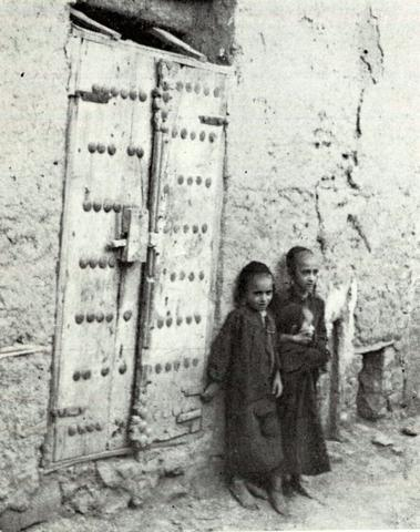 Photo taken by Carl Rathjens who visited Yemen four times: 1928, 1931, 1934 and 1938.